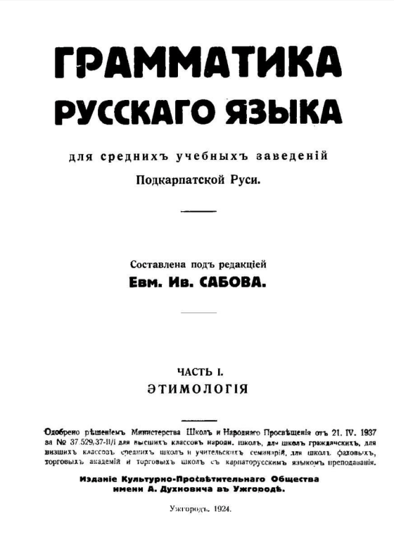 The author uses an obsolete understanding of «etymology»